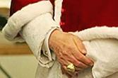 Vatican. Pope Benedict XVI.